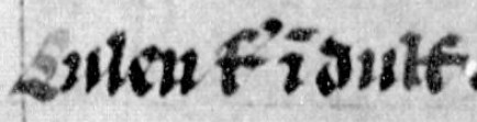 An excerpt from folio 29v of Lat. 4126 (the Chronicle of the Kings of Alba). The excerpt refers to Cuilén mac Illuilb (died 971).